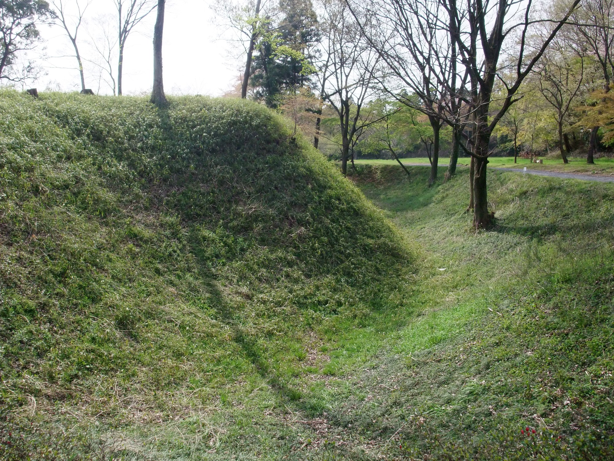 Honguruwa fort of Sugaya-yakata Castle in Ranzan, Saitama